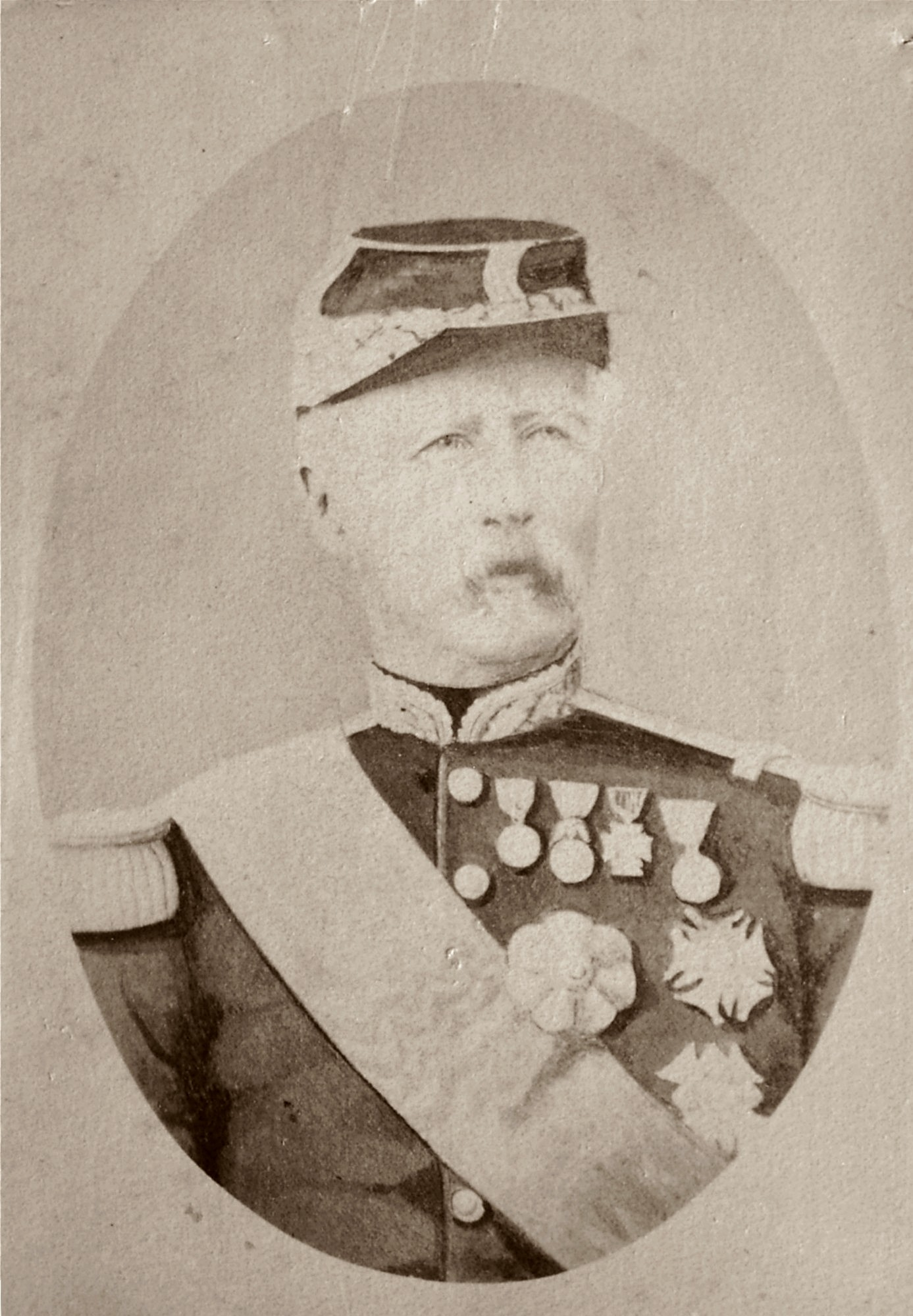 Patrice de Mac-Mahon, Marchal of France